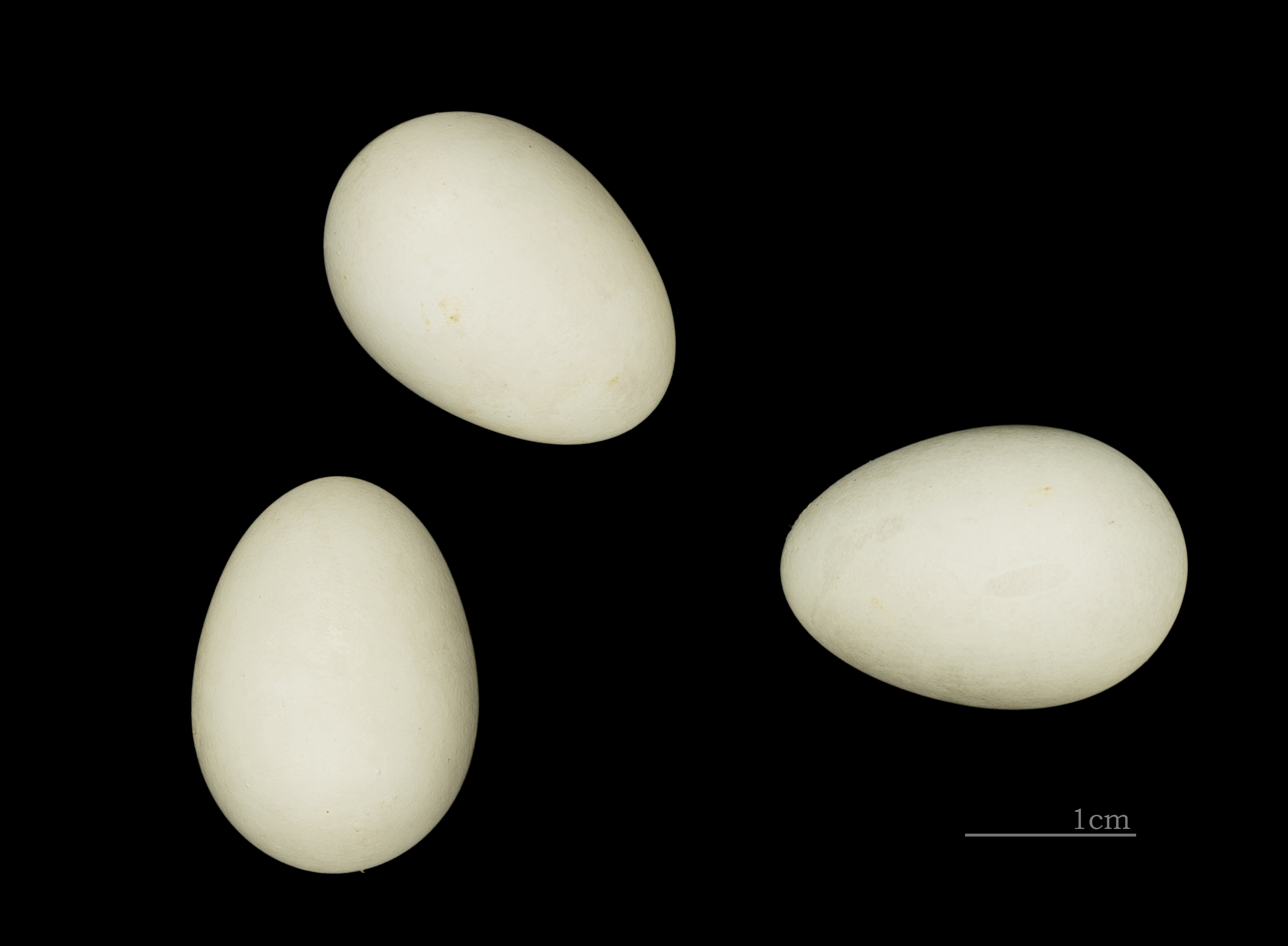 Egg of Pallid Swift. Collection of Henri Heim de Balsac /Jacques Perrin de Brichambaut.